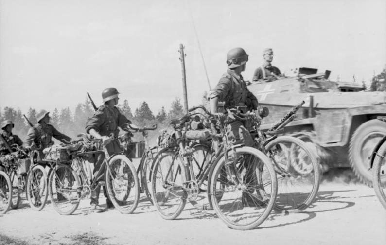 SdKfz. 253